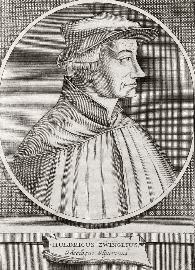 Huldrych Zwingli